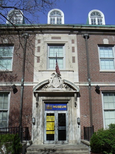 Front Entrance of the Staten Island Museum